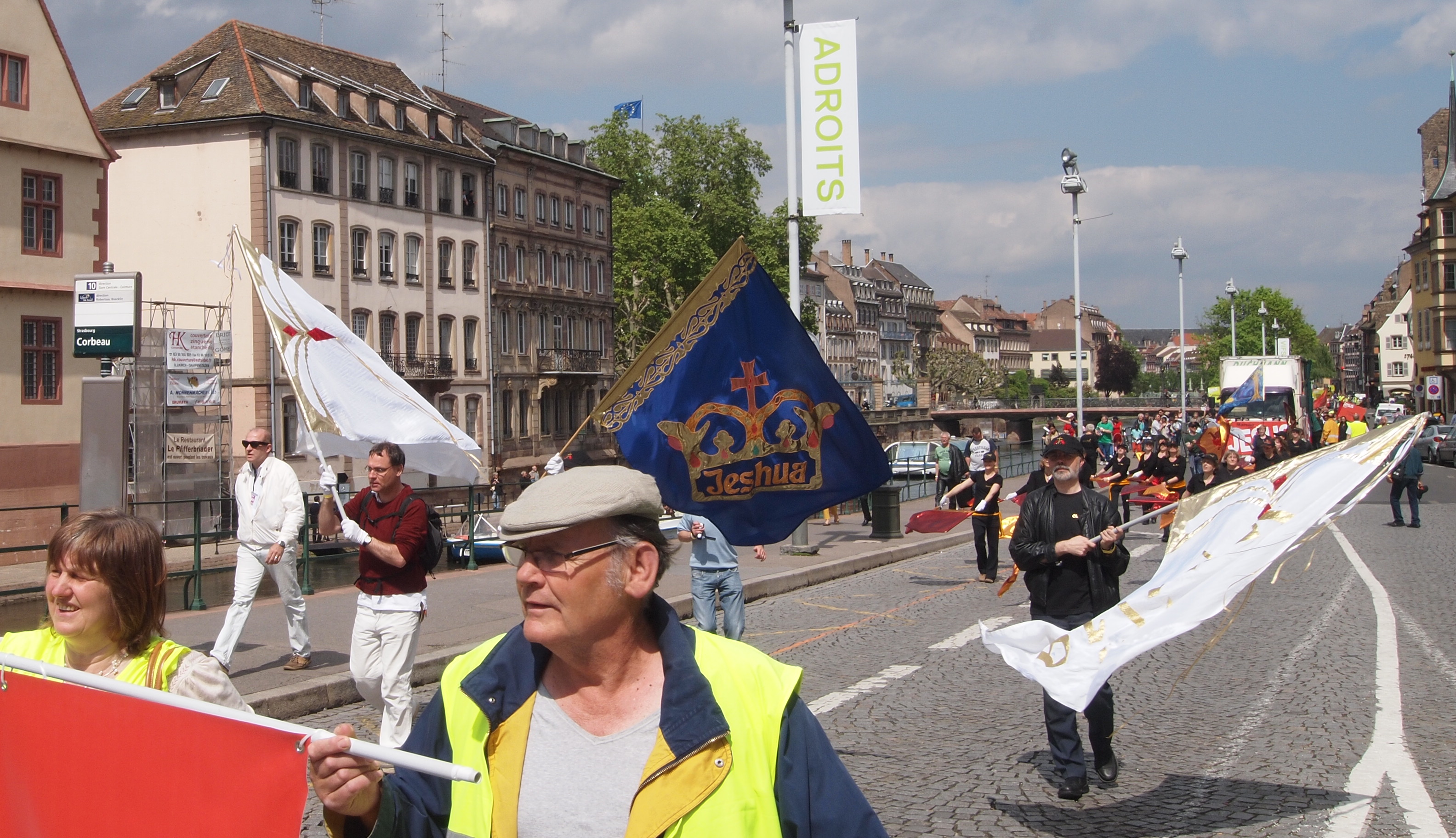 March for Jesus 2012 in Strasbourg, France